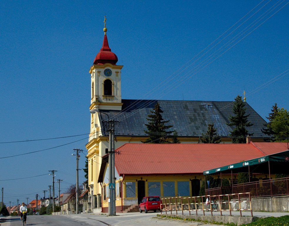 St. Andrew church in Dolná Krupá